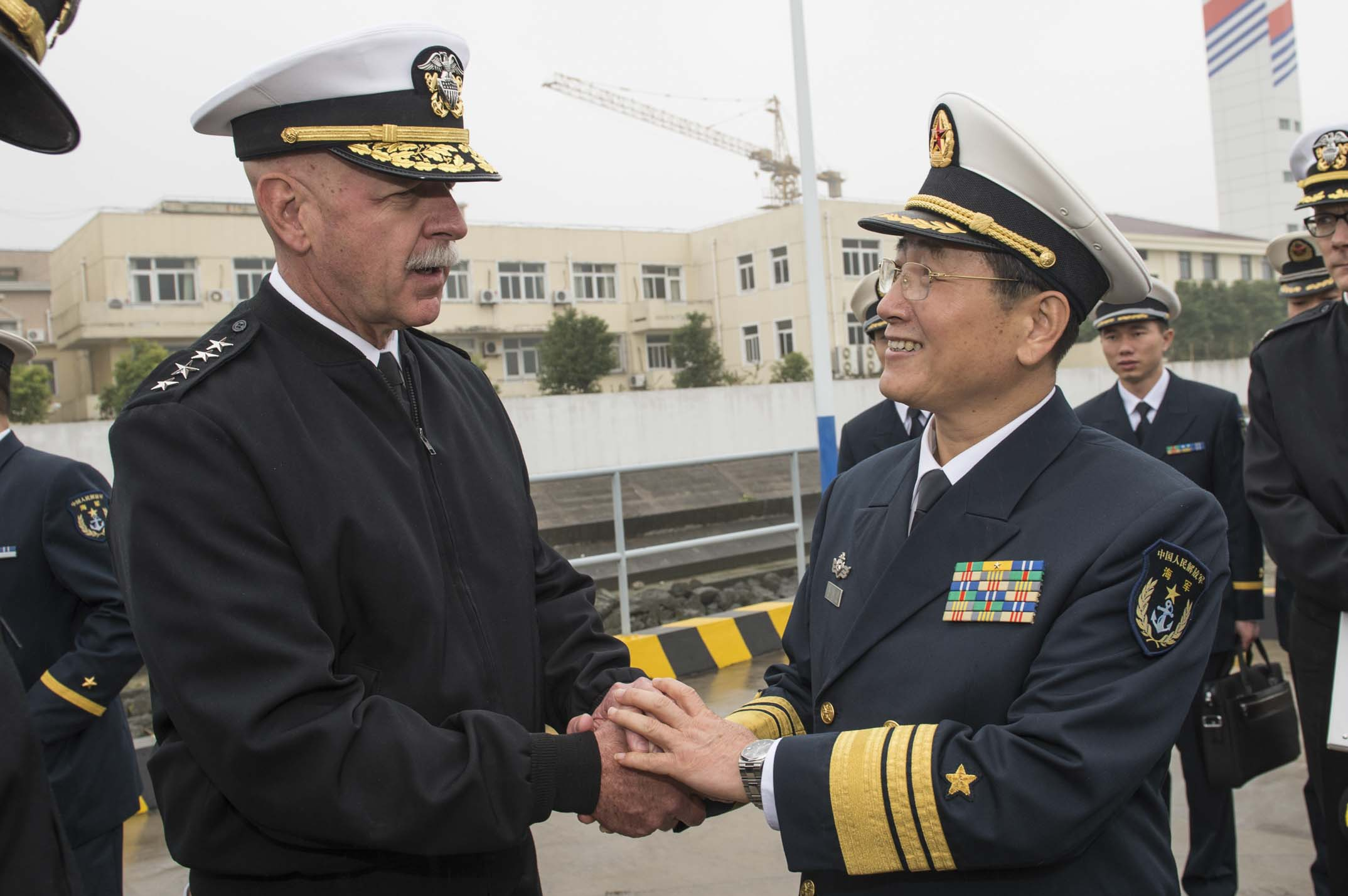 SHANGHAI (Nov. 17, 2015) Adm. Scott H. Swift, commander U.S. Pacific Fleet, greets Vice Adm. Su Zhiqian, the East Sea Fleet Commander of Chinese People’s Liberation Army (Navy), after touring the PLA Navy Jiangkai II class guided-missile frigate Xuzhou (FFG 530), during a scheduled port visit of the forward-deployed Arleigh Burke-class guided missile destroyer USS Stethem (DDG 63). Stethem is in Shanghai to build relationships with the PLA Navy and demonstrate the U.S. Navy’s commitment to the Indo-Asia-Pacific. (U.S. Navy photo by Mass Communication Specialist 2nd Class Kevin V. Cunningham/Released) 151117-N-UF697-206